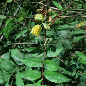 (Jacque Climón)